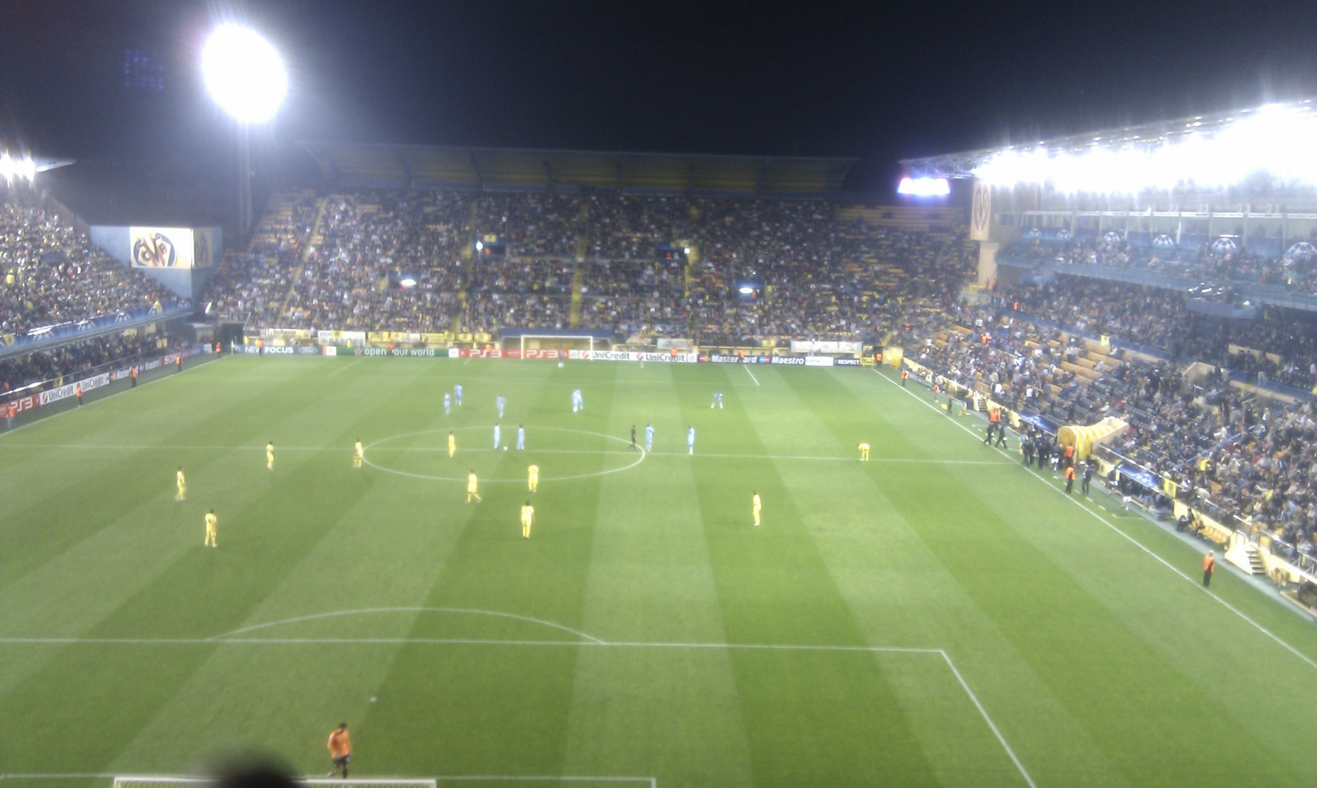 Villarreal CF (yellow) and Manchester City FC (blue) prepare to kick-off the second half of their UEFA Champions League match at Estadio Madrigal in November 2011.